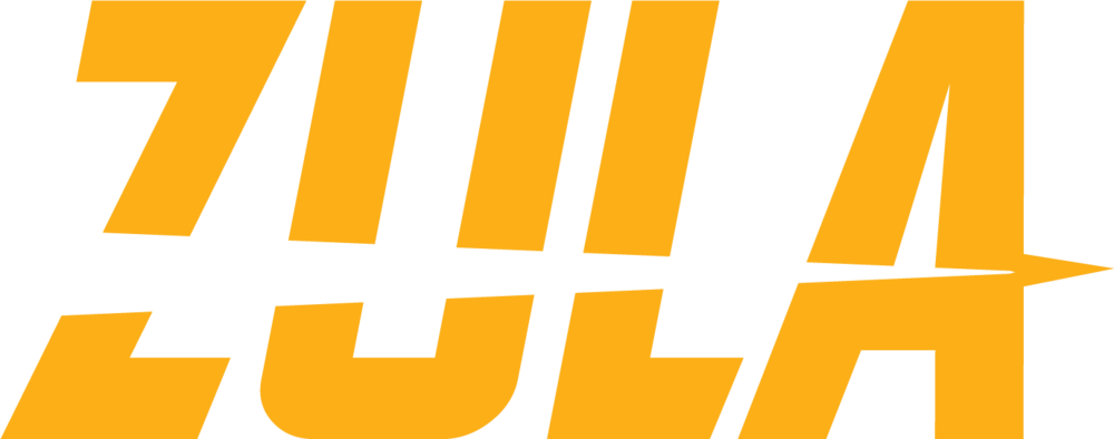 logov2